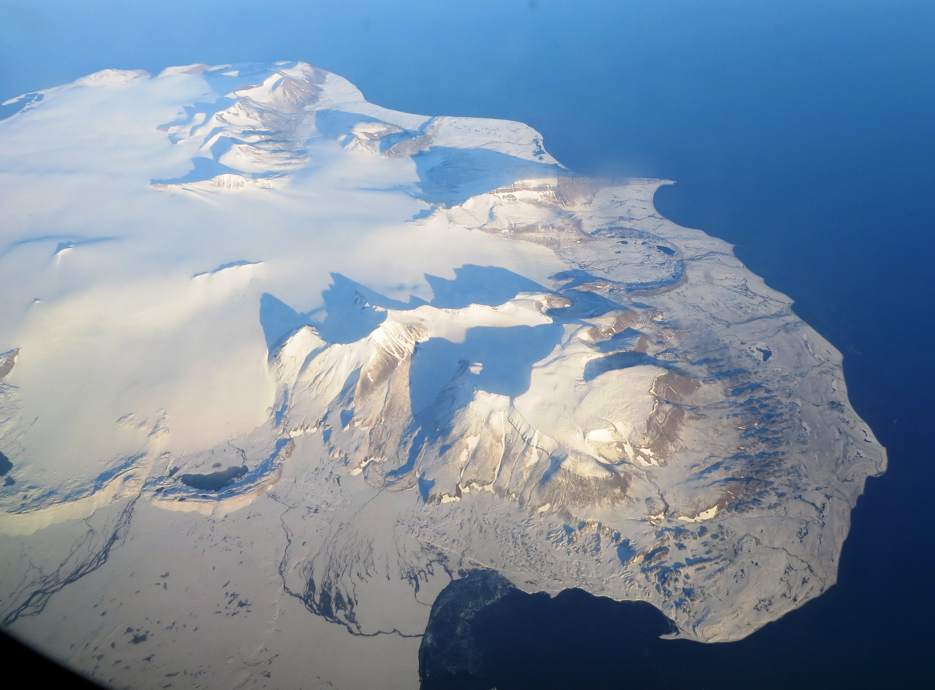 Aerial photo, from the west towards east, of the Sørkapp Land southernmost parts of Spitsbergen, Svalbard.